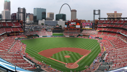 Panorama of Busch Stadium.